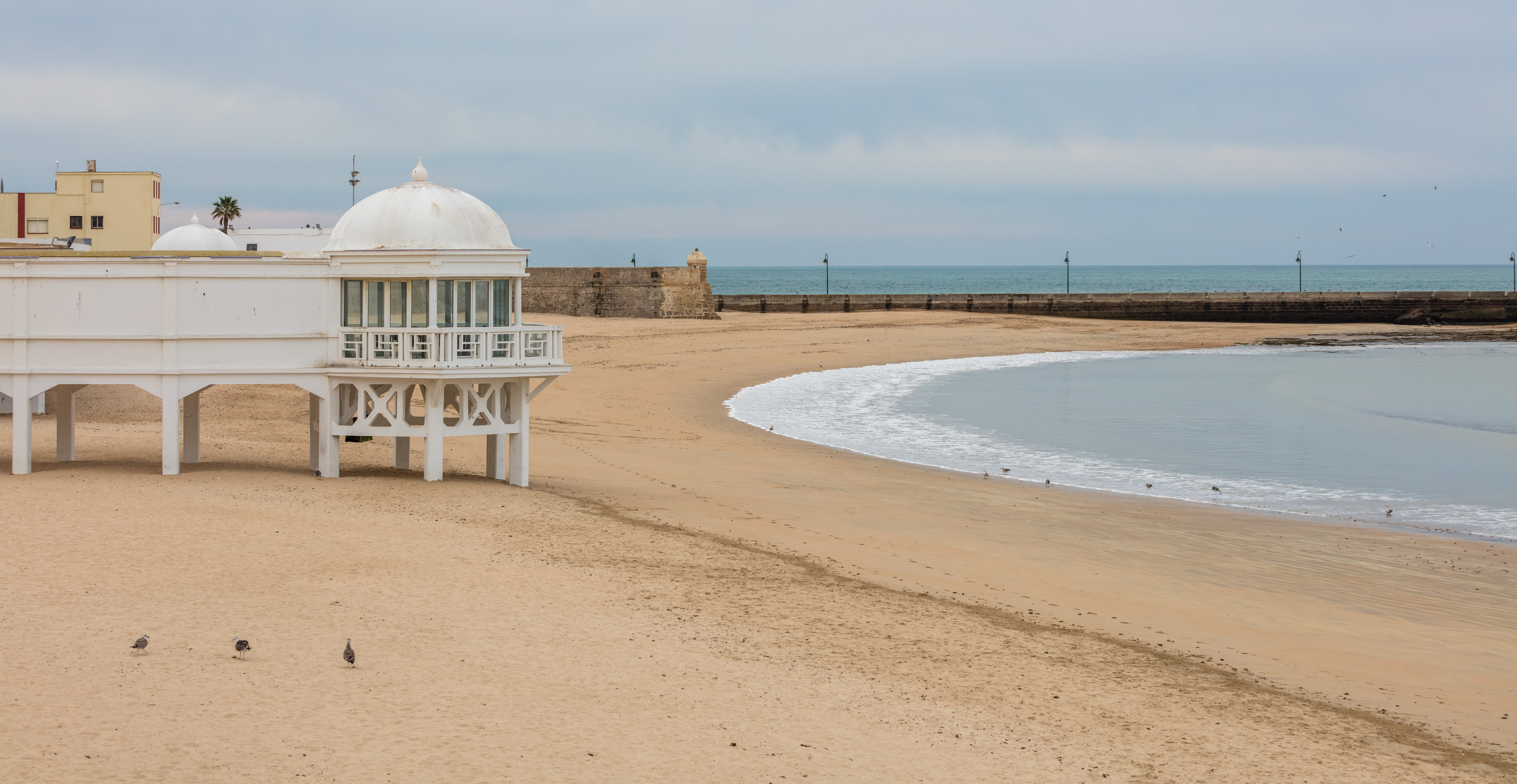 La Caleta beach, Cádiz, Spain